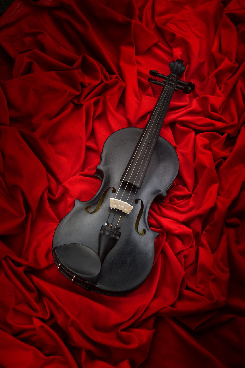 Photo of the Black Stone Violin, called The Blackbird. A world unic playable instrument, made by the Swedish sculptor Lars Widenfalk, in 1992.